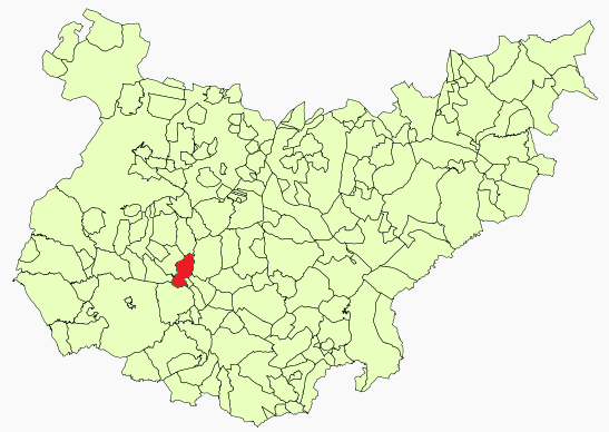 Feria